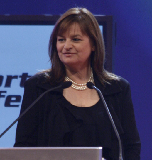 Former politician (FPÖ) Susanne Riess-Passer at the Galanacht des Sports (Gala-Night of Sports), where the Austrian Sportspersonalities of the Year 2008 were honoured.